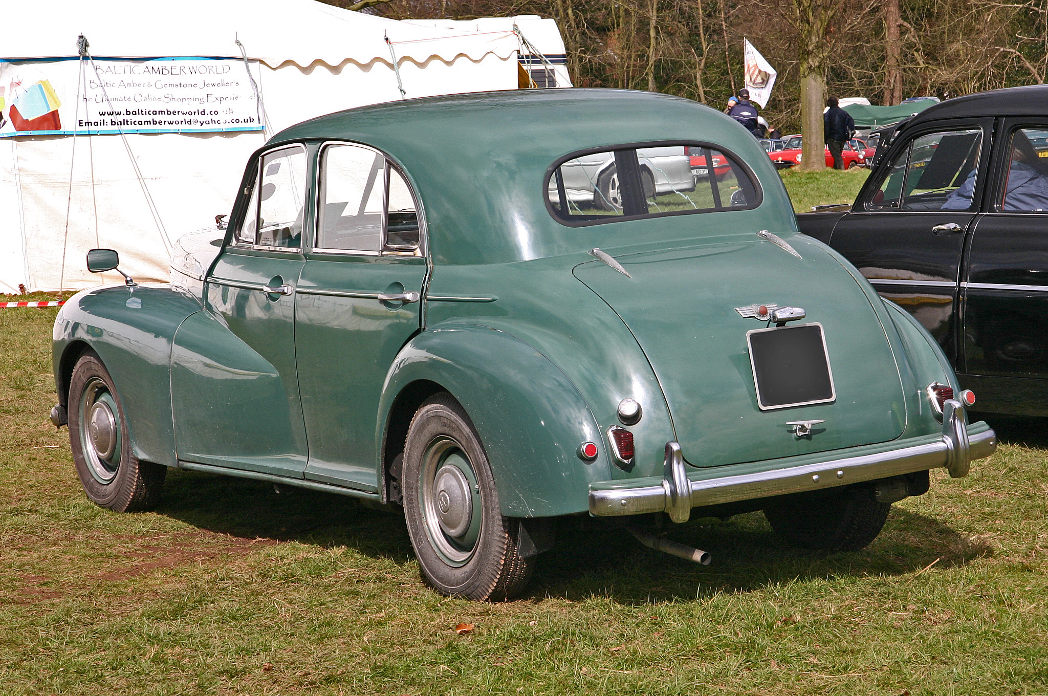 Morris Six Series MS. Taking a Series MO Oxford and lengthening it by 13 inches to incorporate a new 6 cylinder OHC engine was the recipe for the Series MS Six. Morris Six MS